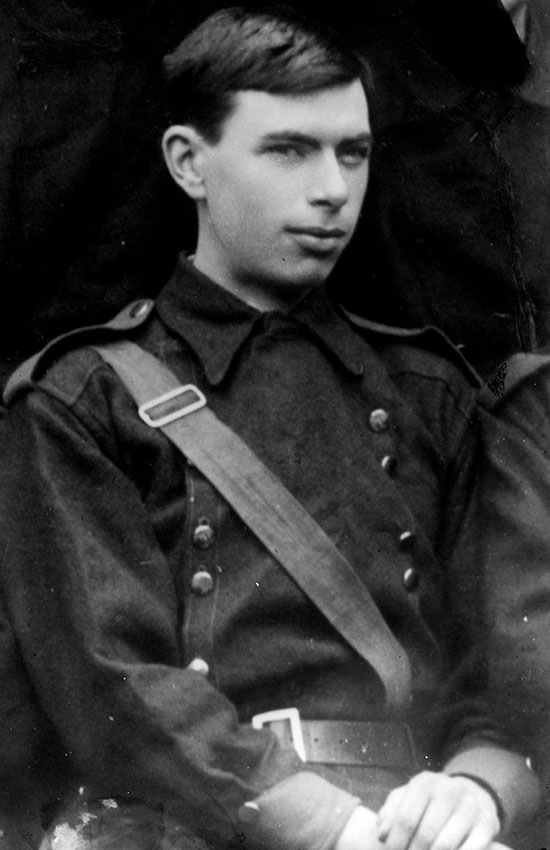 Out of copyright photo of Seán Heuston (1897-1916)